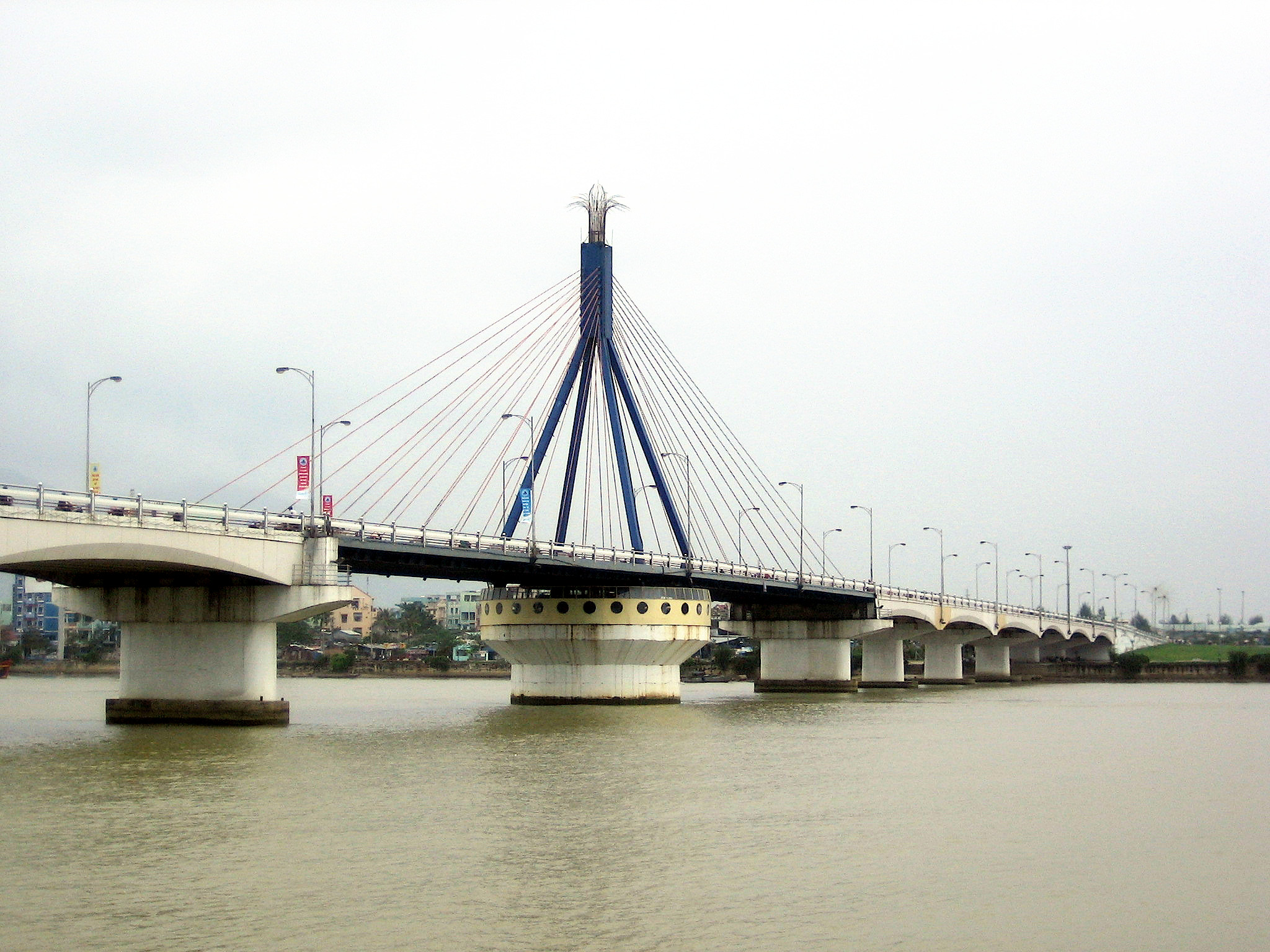 This bridge is a symbolic structure located in Da Nang, Vietnam. It connects the two sides of the city, which is divided by a river.